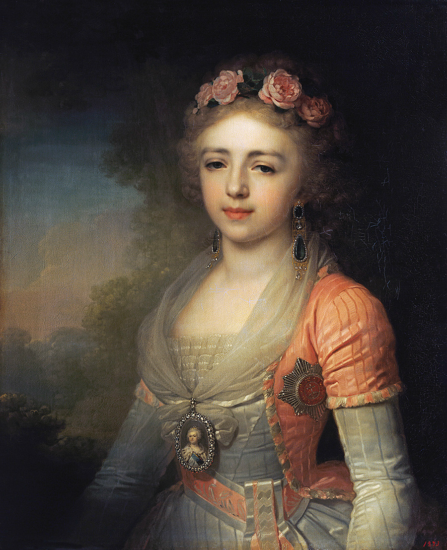 Grand Duchess Alexandra Pavlovna of Russia (1783-1801), Palatina of Hungary